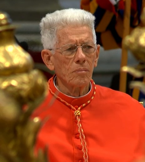 Cardinal Maurice Piat, CSSp was the Bishop of Port Louis, Mauritius was created a cardinal in November 19, 2016 and given the titular church of Santa Teresa al Corso D'Italia.